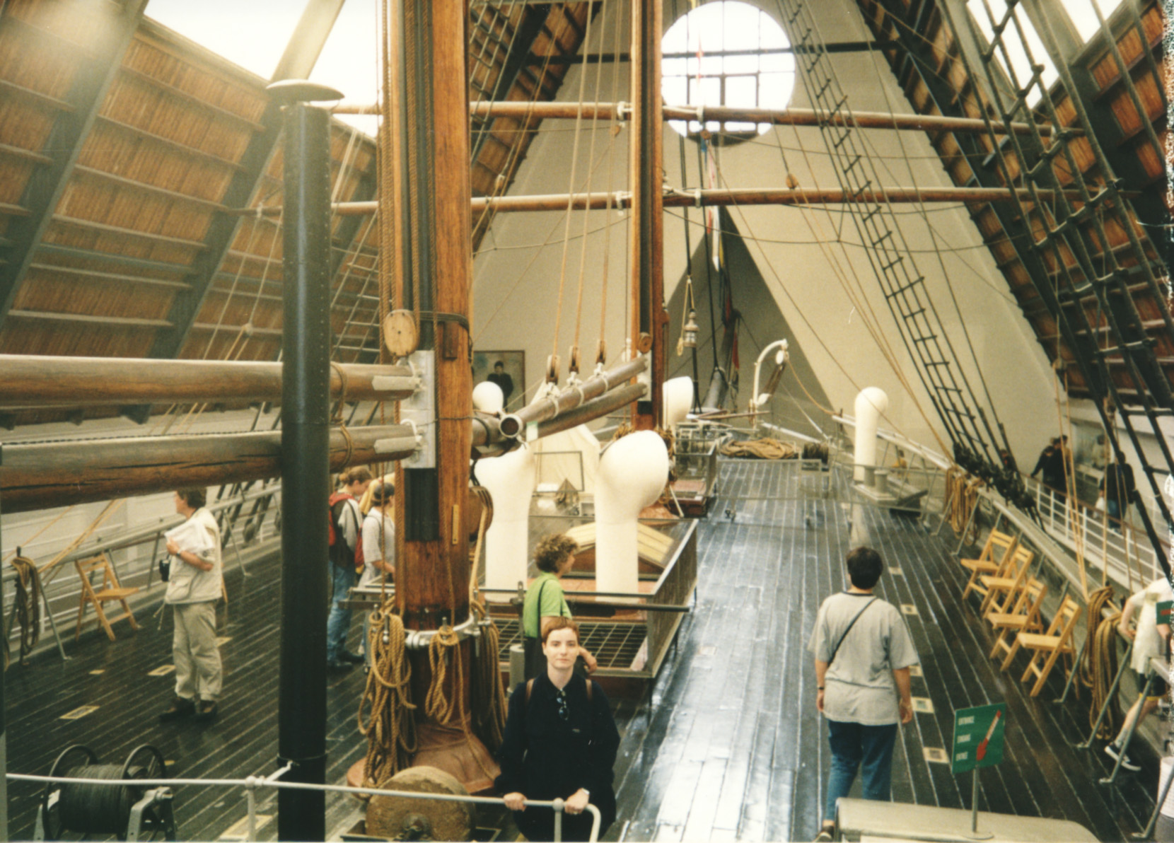 Fram Ship at The Fram Museum